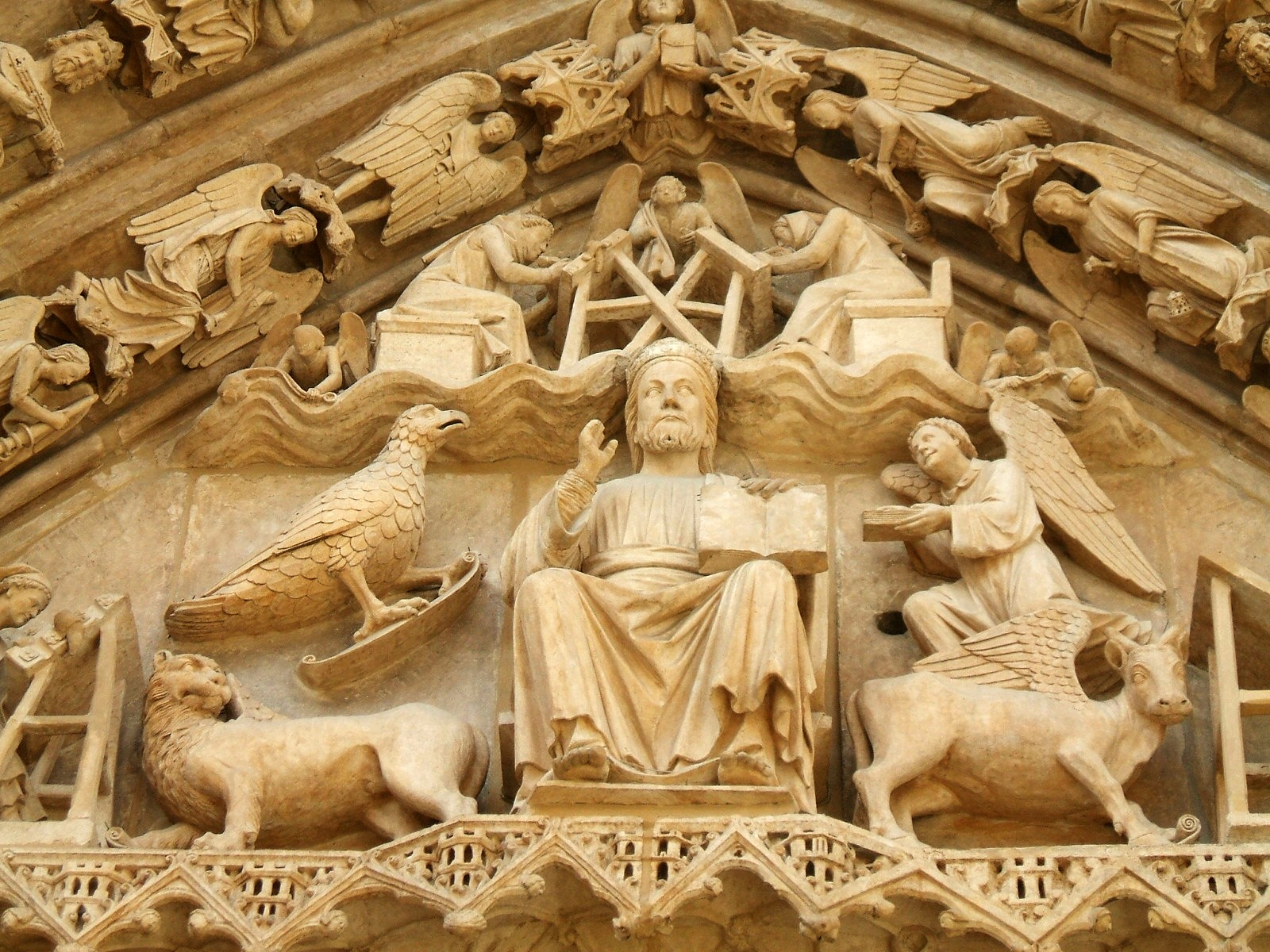 Tímpano de la Puerta del Sarmental de la Catedral de Burgos, España. Cristo en majestad flanqueado por el Tetramorfos (s-XIII)